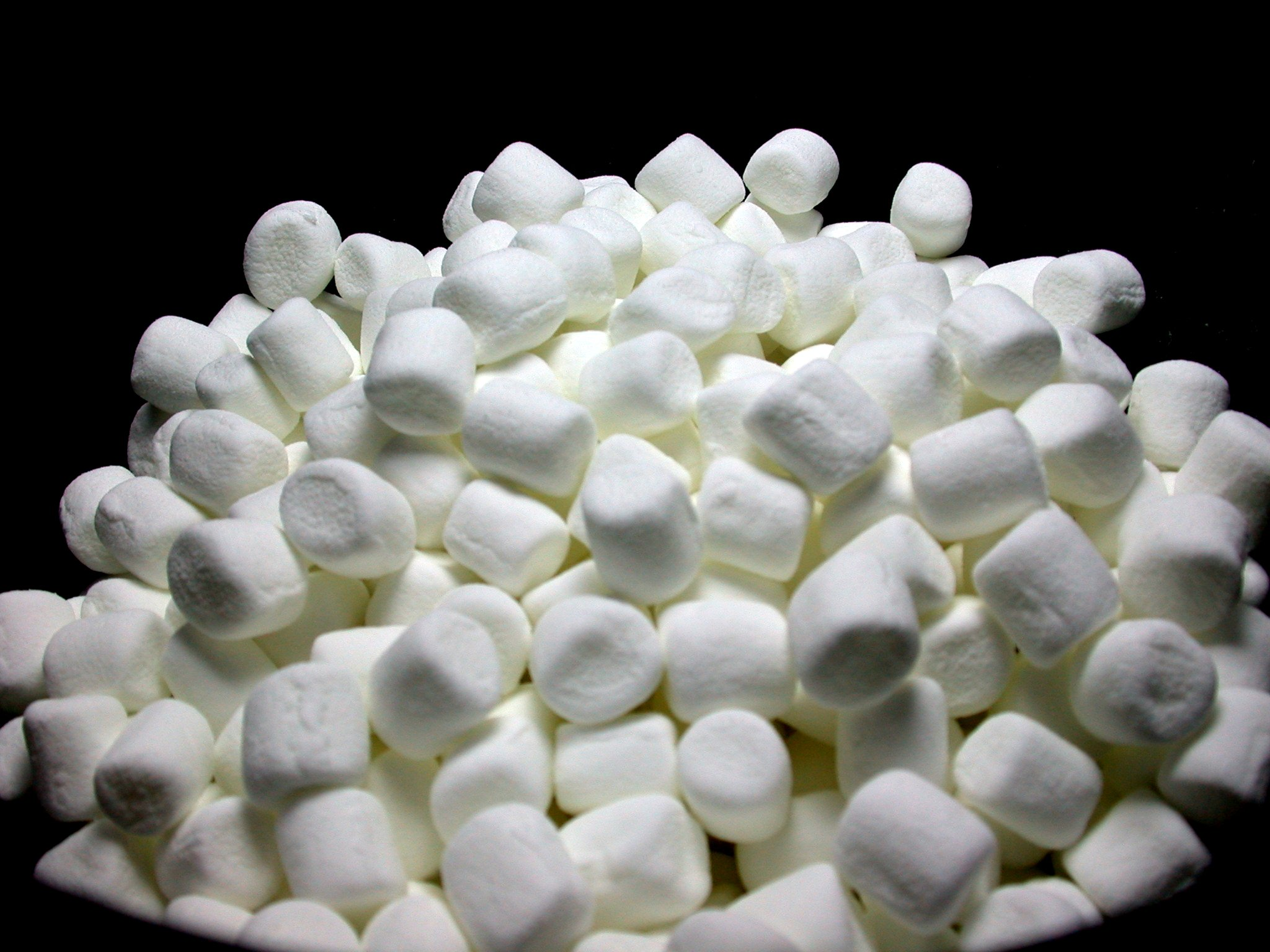 Miniature marshmallows, close up.